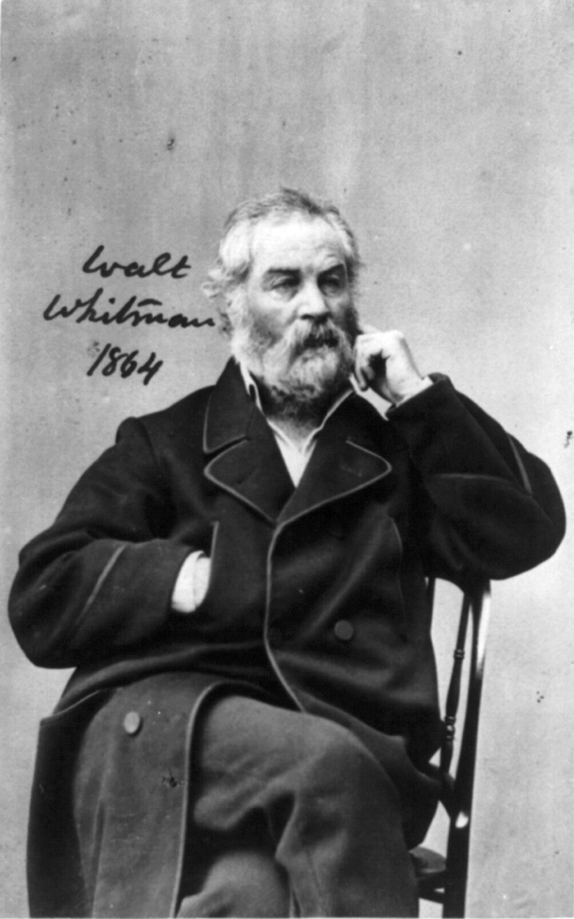 Walt Whitman, three-quarter length portrait, seated, facing slightly right, wearing heavy coat with right hand in pocket, left hand at cheek